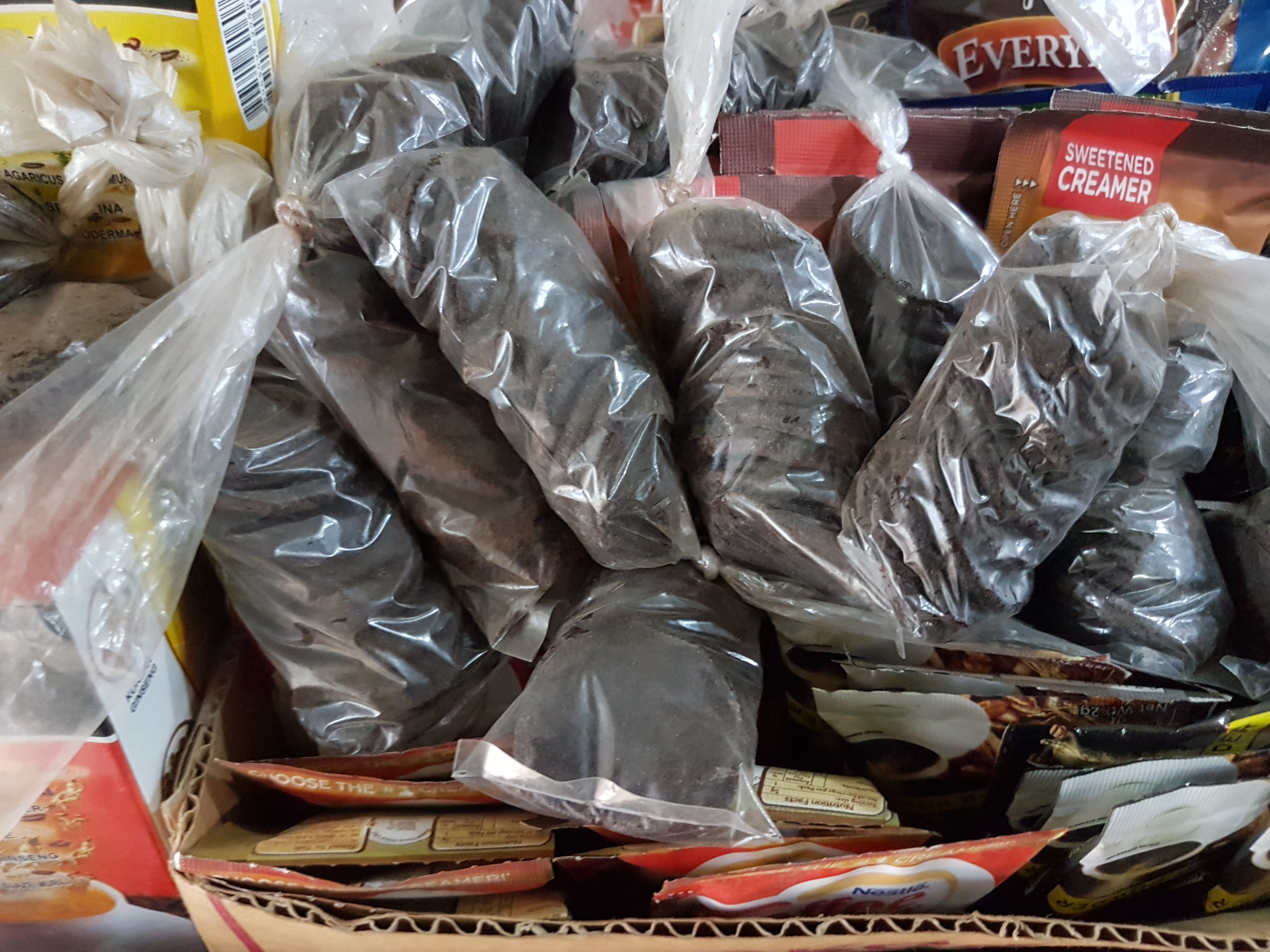 Traditional pure chocolate tablets known as tableya, tablea, or tabliya from the Philippines